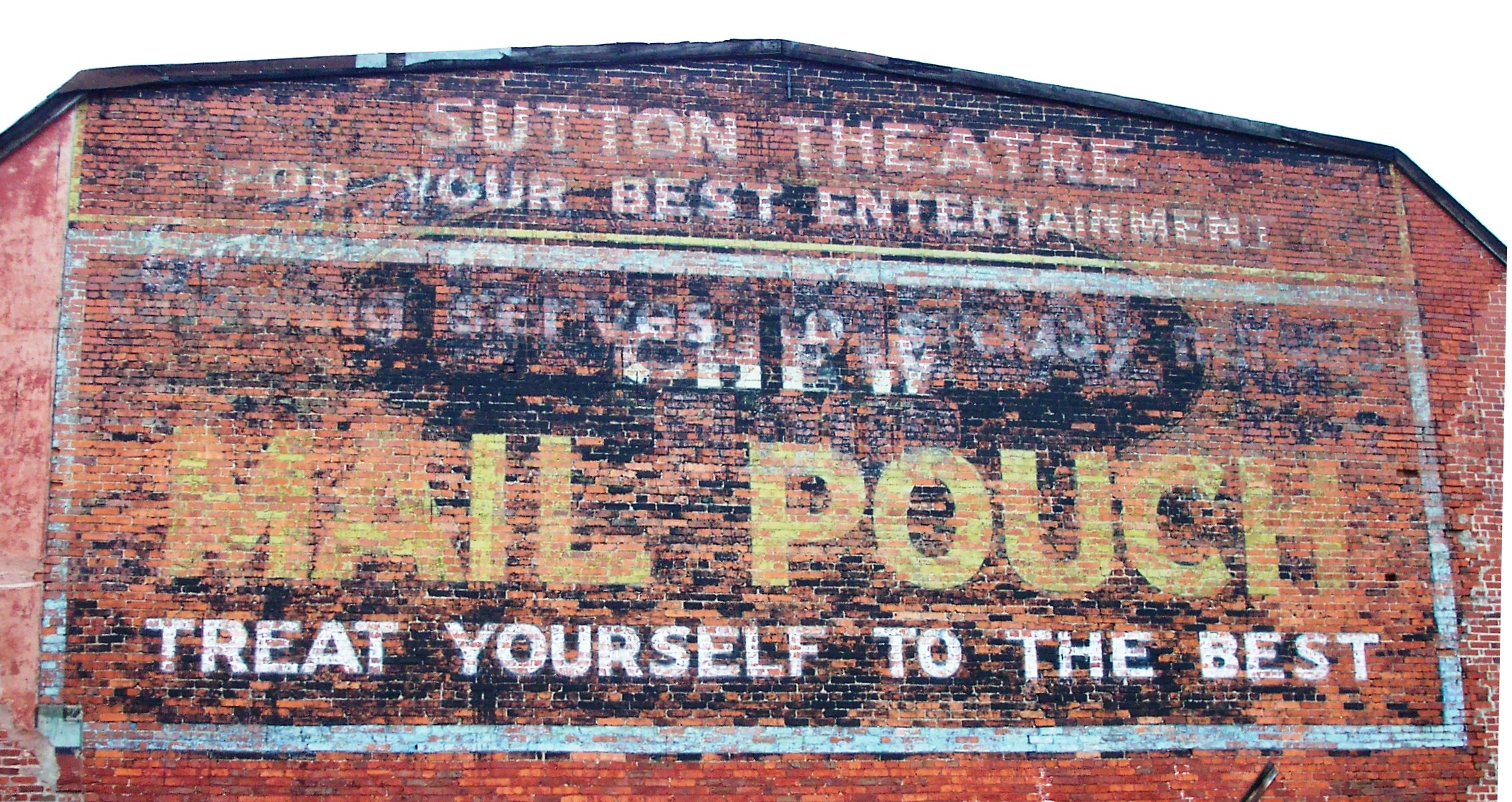 "Mail Pouch" advertisement on side of the building of Thomas, West Virginia, USA.